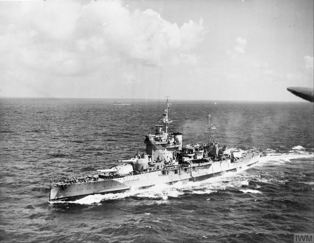 HMS WARSPITE of the Eastern Fleet and Flagship of Admiral Sir James Sommerville, underway in the Indian Ocean.